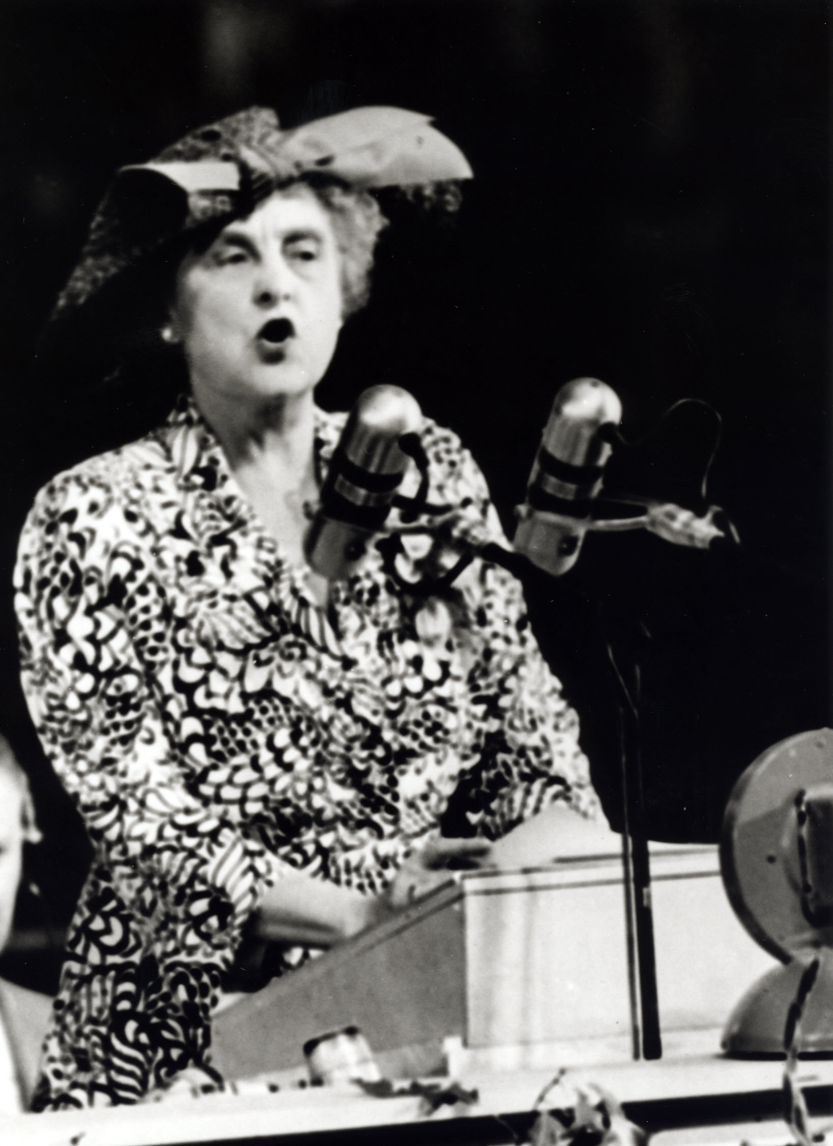 former Congresswoman Frances P. Bolton of Ohio.